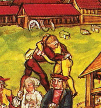 wrestling match between two 15th century Swiss mercenaries.